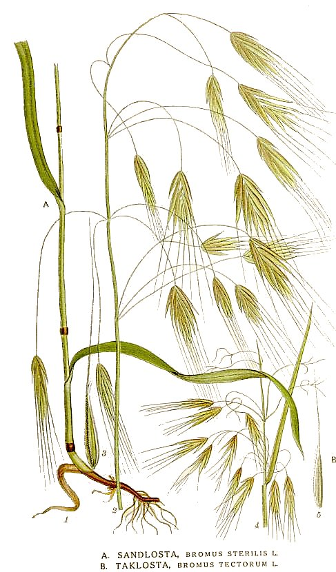 A. Bromus sterilis L. , nom. cons. B. Bromus tectorum L. Original Caption "Sandlosta", Bromus sterilis L., "Taklosta", Bromus tectorum L.